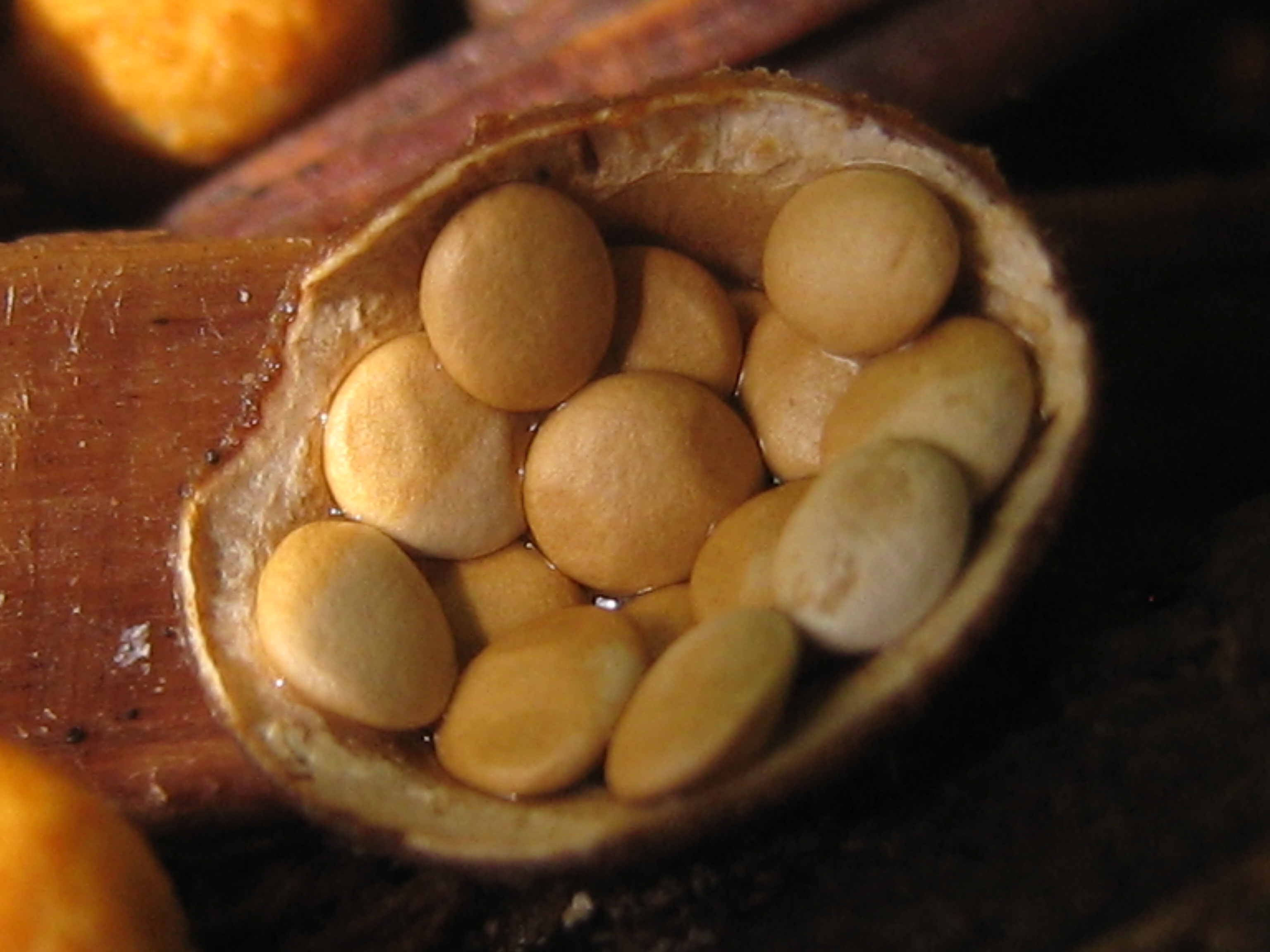 Specimen of Cyathus stercoreus.